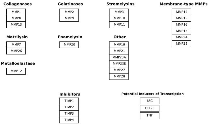 Categories of matrix metalloproteinases.